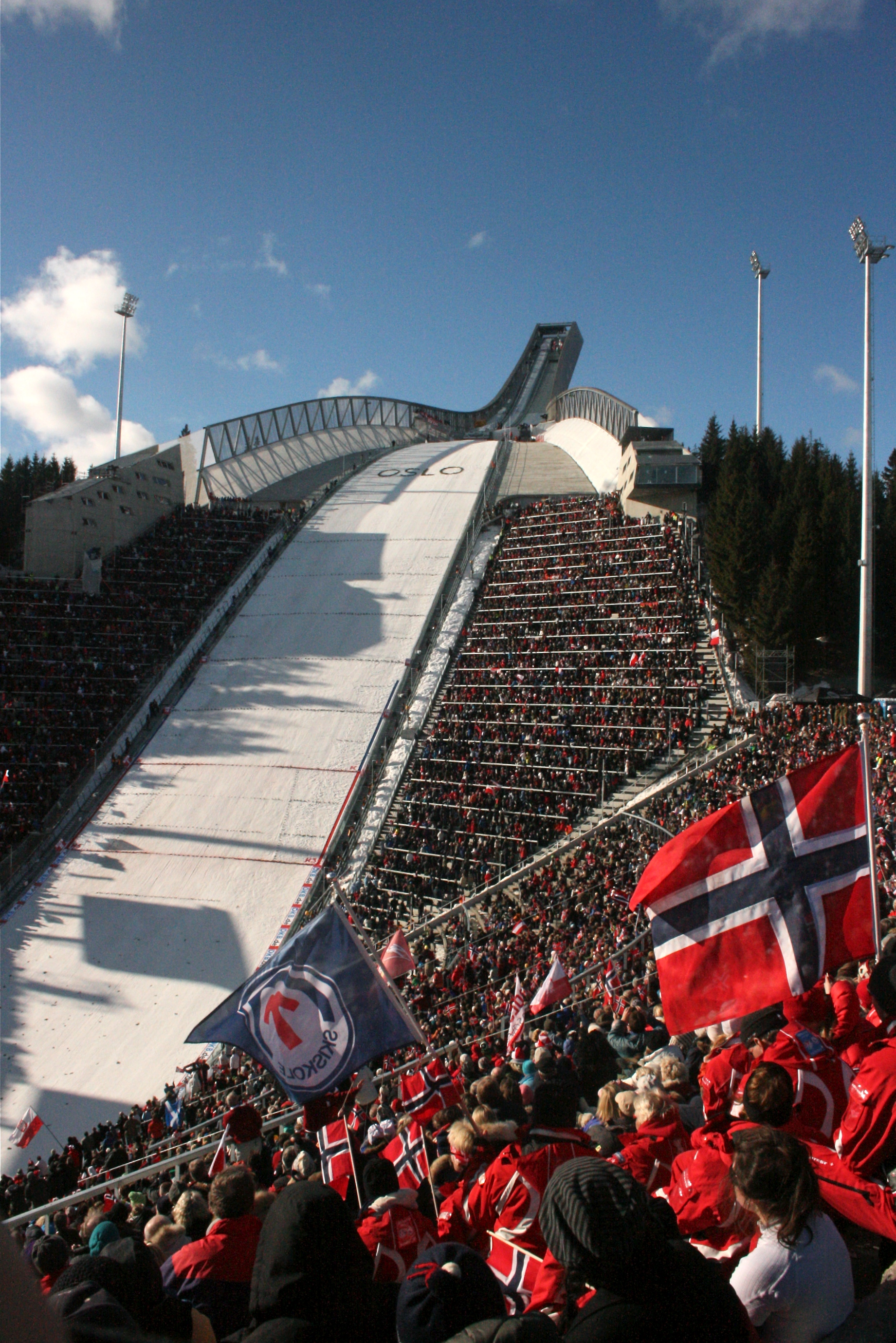 The new (in 2010) Holmenkollen skijump arena, Oslo, Norway, at the first World Cup weekend, March 14. 2010.